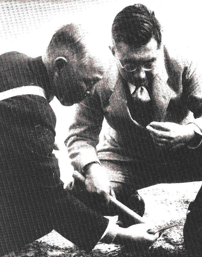 The Emperor Showa who gathers an echiurid in Gogoshima.